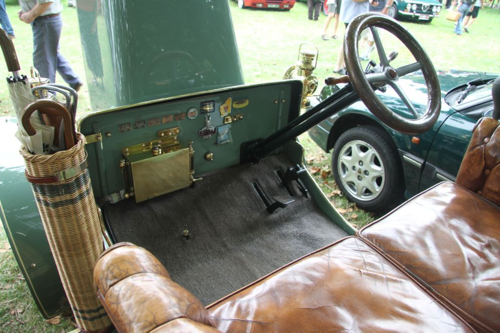 1905 Rover 6 hp open 2-seater instruments and controls single-cylinder 780 cc RACV Great Australian Rally 2011